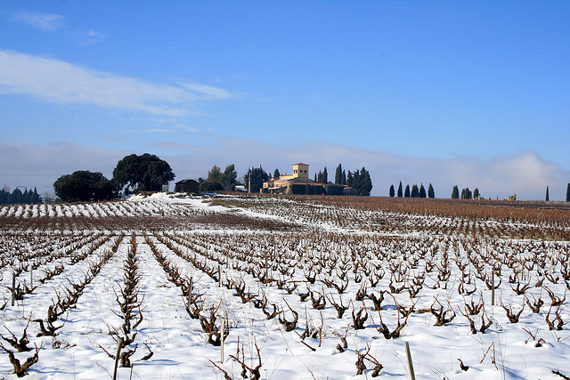 Snow at Châteauneuf-du-Pape